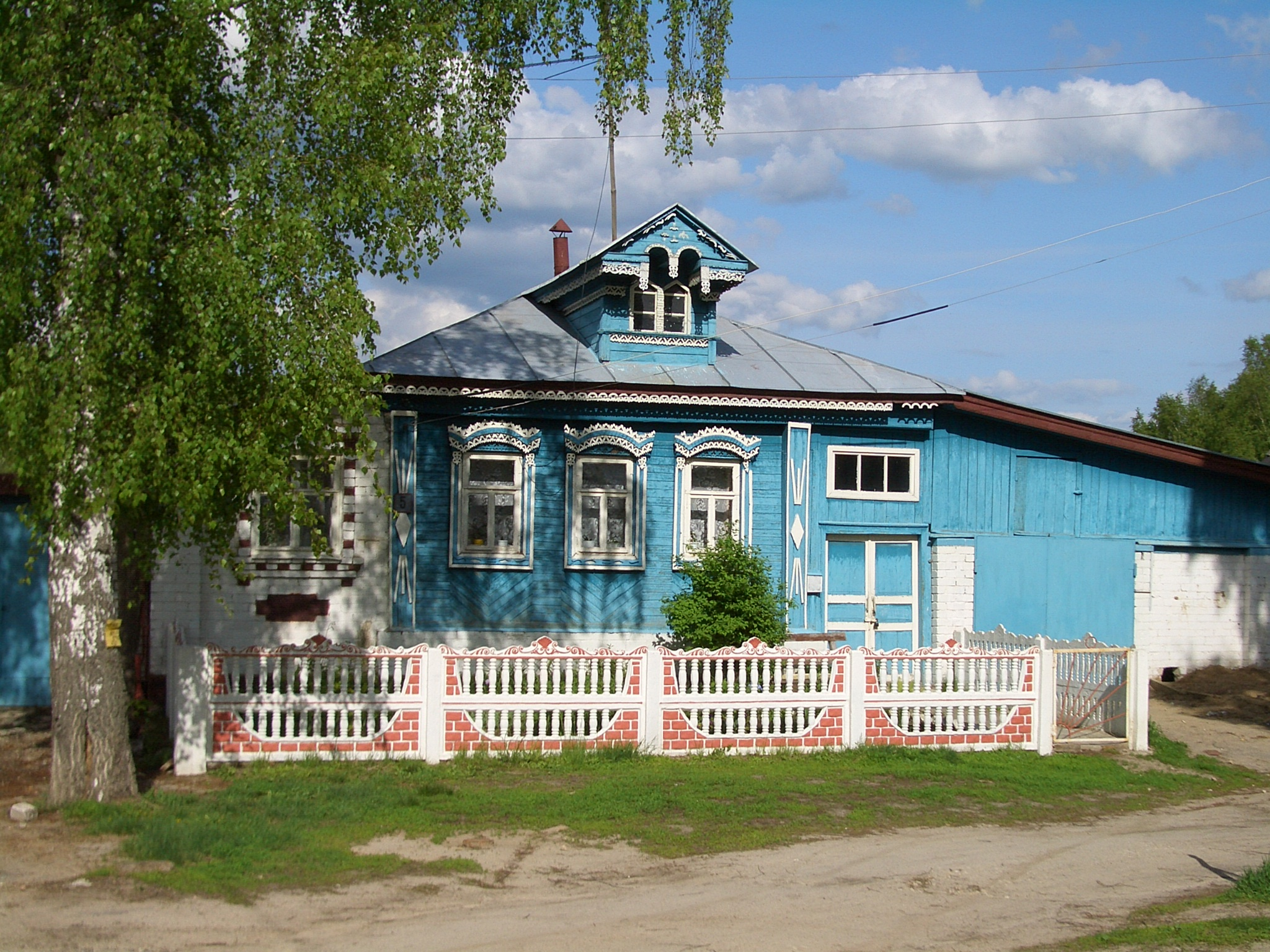 A traditional village house design. Houses like these could still be very often seen in Russia's Nizhny Novgorod Oblast in the 1970s, but now their numbers are dwindling. This one is in the village of Velikiy Vrag, outside of the city of Kstovo.